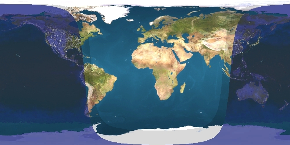 Nonscientific daylight/sunlight border map (11:00 UTC); timezone.